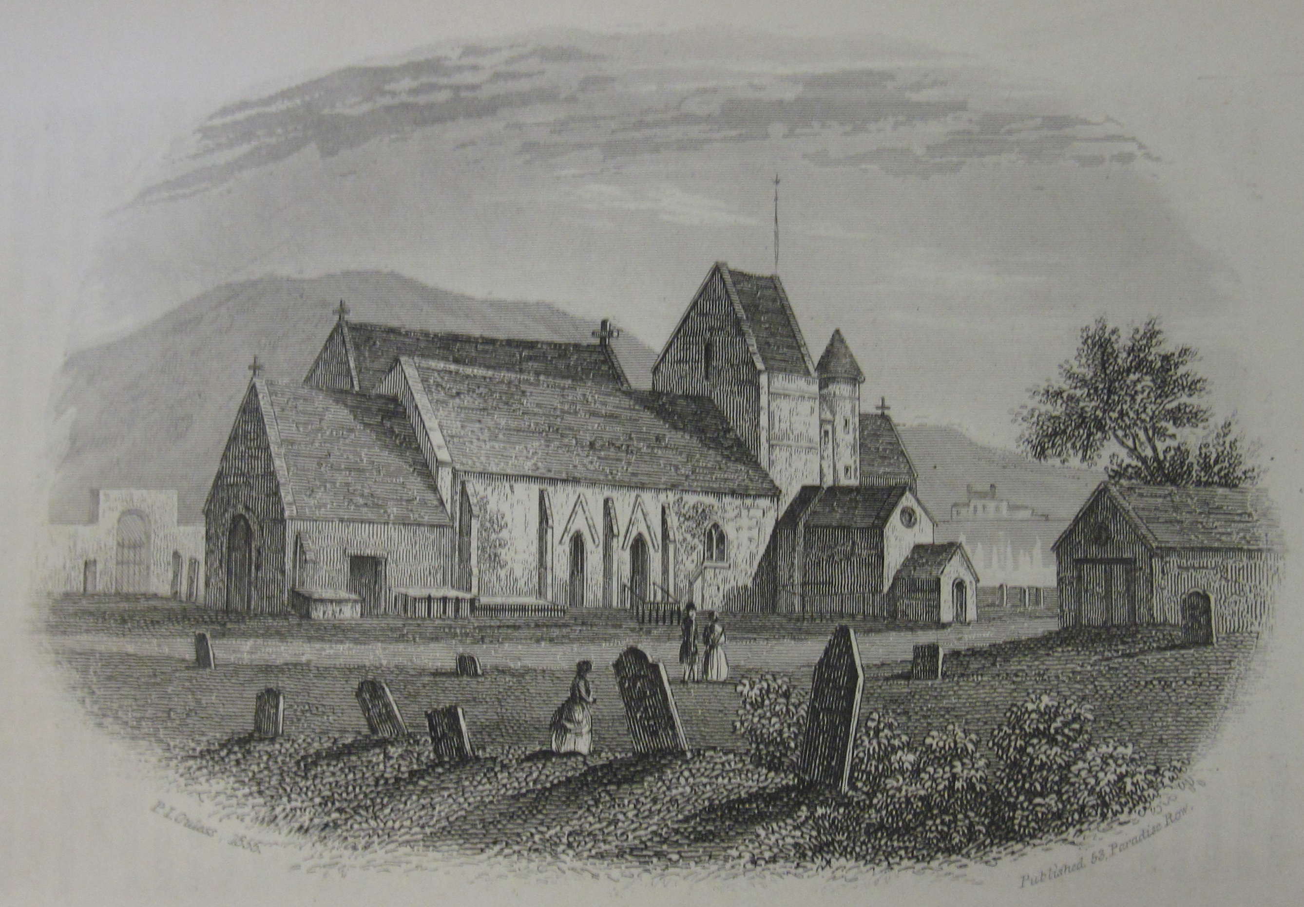 Illustration from The Picturesque and Historical Guide to the Island of Jersey, 1852, Rev. Edward Durell, interspersed with lithographic drawing by P.J. Ouless, artist - "St. Brelade's church, Jersey"